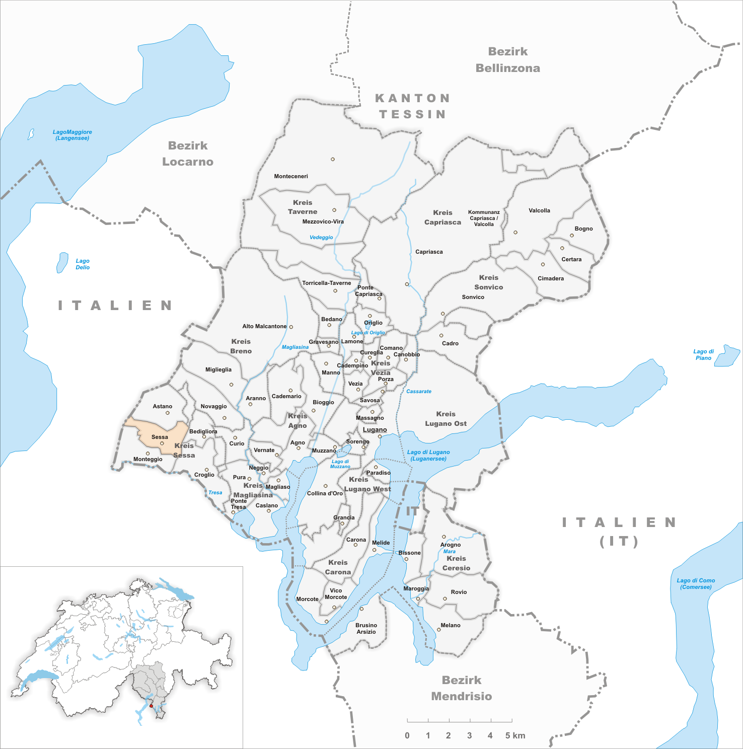 Municipality Sessa